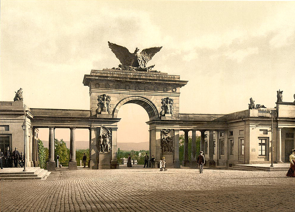 The Auetor in Kassel, before 1900